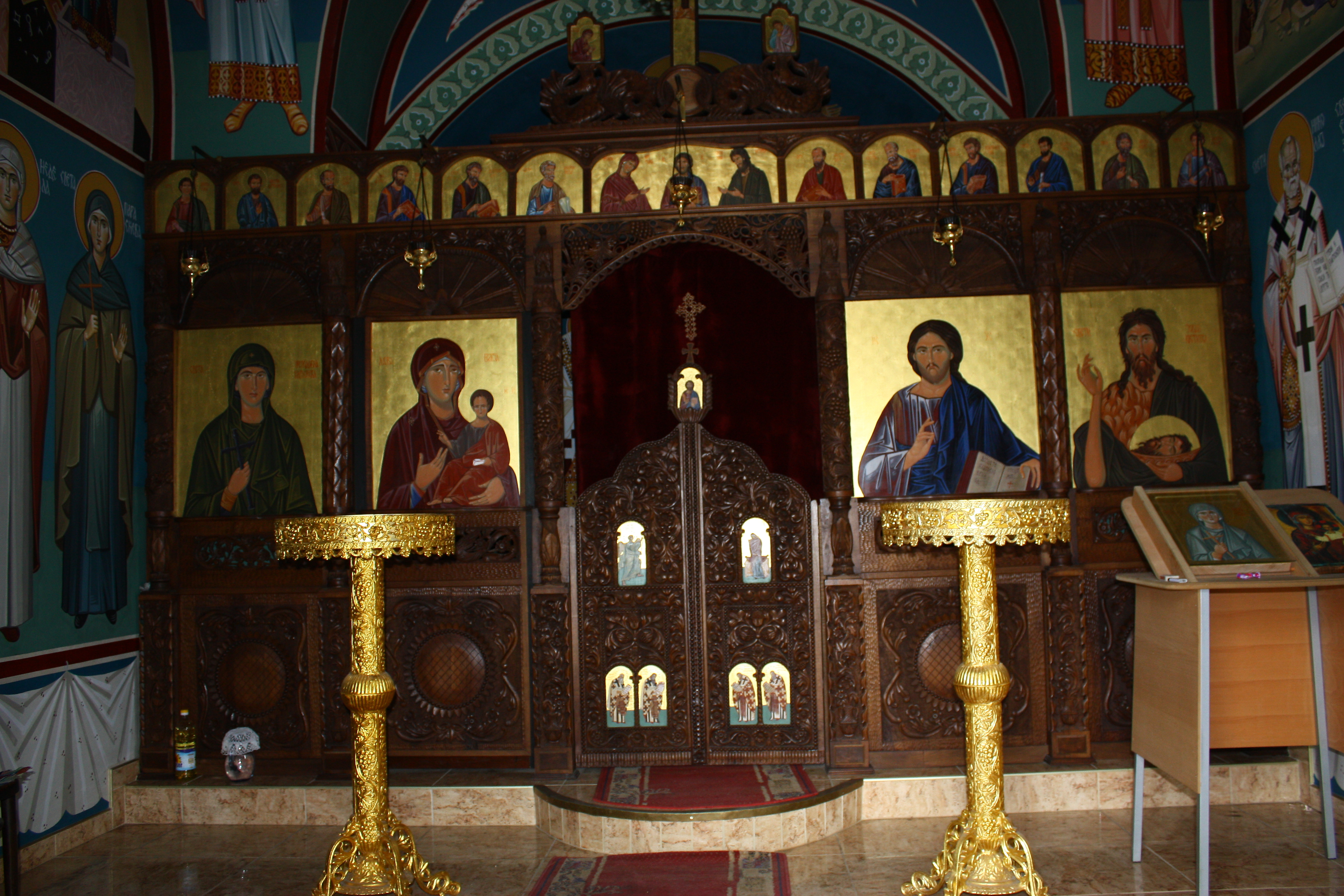 St. Paraskevi of Rome Church in Vranište, Macedonia